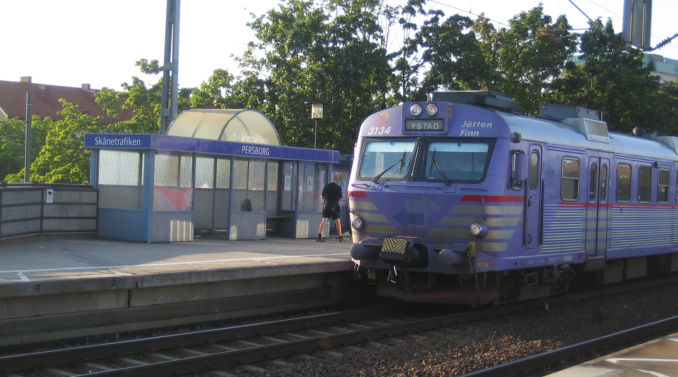 Persborg commuter station, Malmö